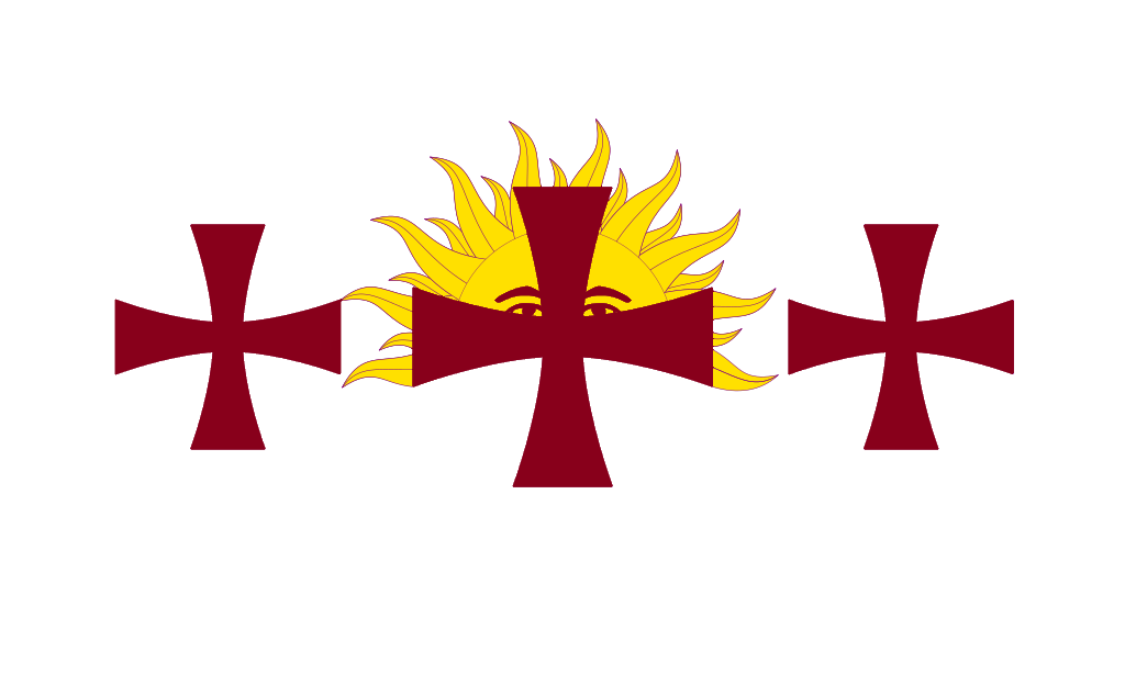 This flag represents the people of the American continent.